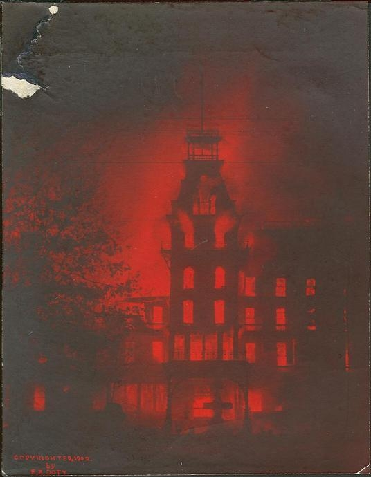 Battle Creek Sanitarium fire on February 18, 1902, a color postcard, circa 1902